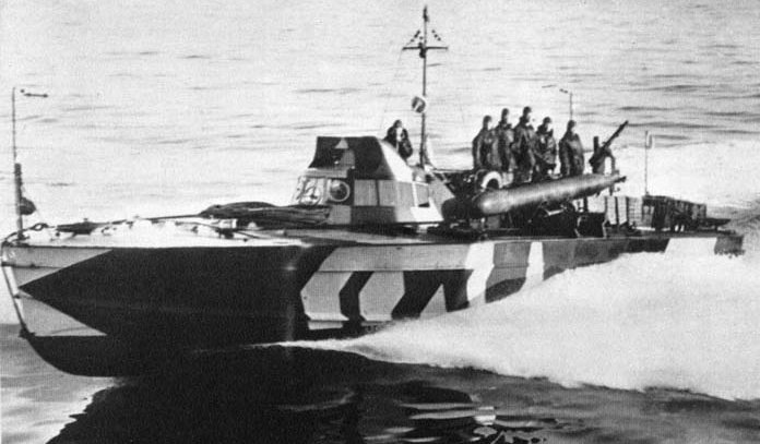 Camouflaged Regia Marina MAS in the Mediterranean during World War II. This work was created by the government of Italy, published prior to 1976, and has no known US copyright registration associated with it. It is now in the public domain in Italy and the United States and possibly elsewhere. This is because according to Law of 22 April 1941 n. 633, revised by the law of 22 May 2004, n. 128 article 11, copyright in works created and published under the name and at the expense of the State shall belong to the State. According to article 29, the duration of the rights belonging to the State shall be twenty years from first publication, whatever the form in which publication was effected.